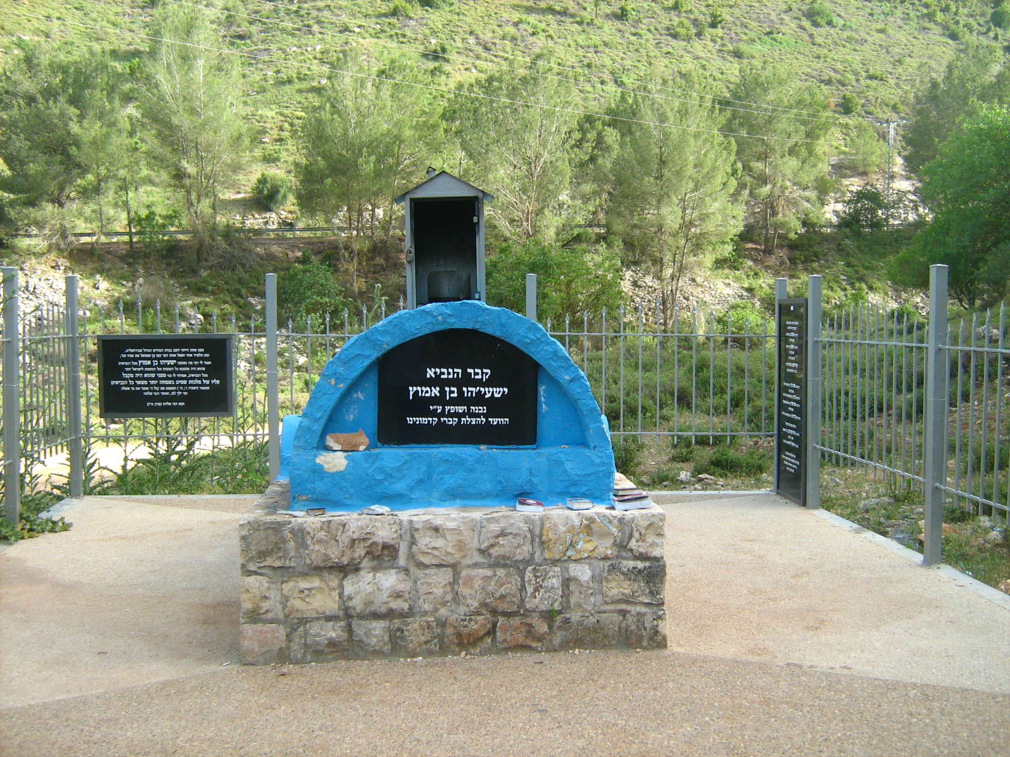 Tomb of isaiah in Nachal dishon